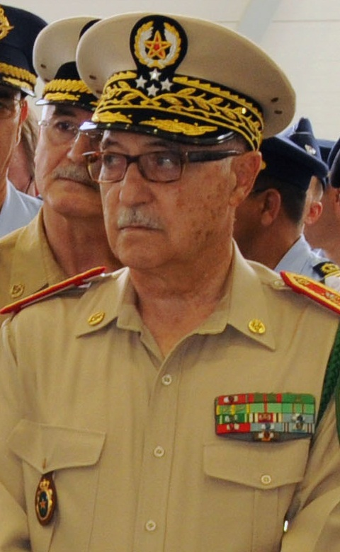 General Abdelaziz Bennani (cropped from this original)